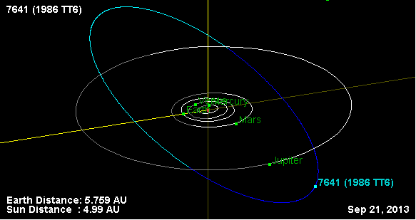 This diagram shows the highly inclined orbit of the Jupiter Trojan (7641) 1986 TT6